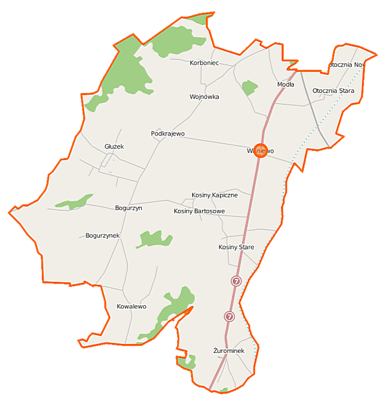 Map of Gmina Wiśniewo, Poland This map of Wiśniewo (gmina) was created from OpenStreetMap project data, collected by the community. This map may be incomplete, and may contain errors. Don't rely solely on it for navigation. Border coordinates53.115720.2032←↕→20.420552.9803